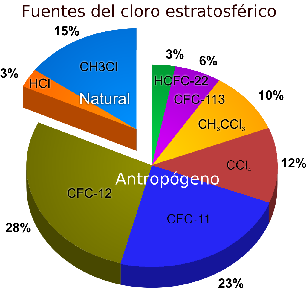 Sources of stratospheric chlorine. According to World Meteorological Organization, Scientific Assessment of Ozone Depletion: 1998, WMO Global Ozone Research and Monitoring Project - Report No. 44, Geneva, 1998.